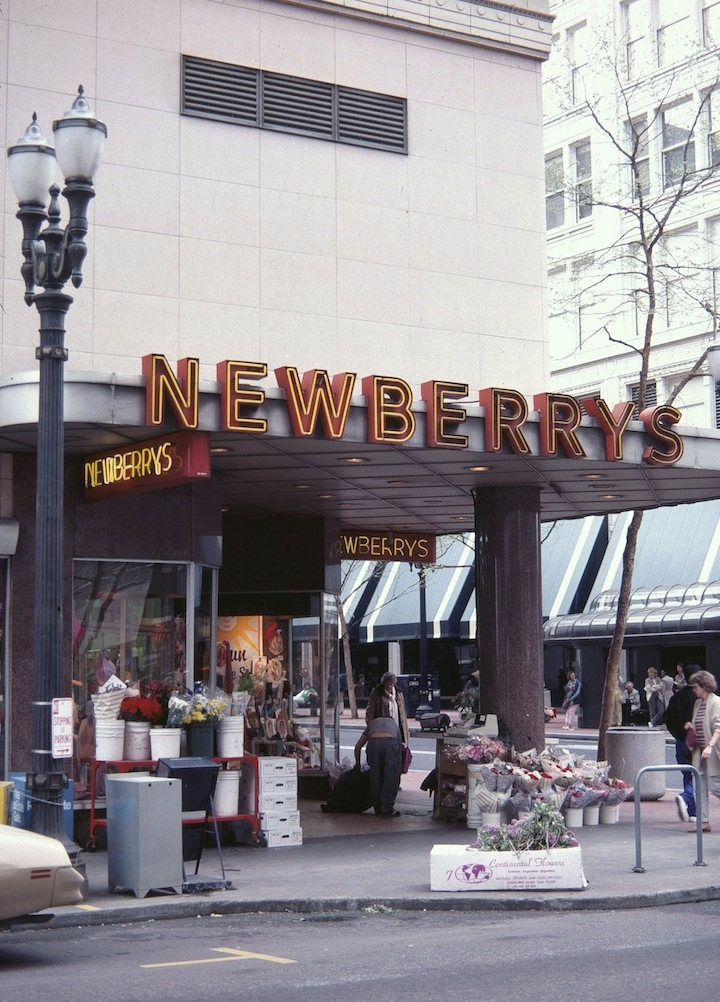 The former J.J. Newberry store in downtown Portland, Oregon, at 5th & Alder — on the ground floor of the 620 SW 5th Building (earlier known as the Failing Office Building). The store at this location was in business from 1927 to 1996, and Portland's last Newberry's (at Lloyd Center) closed in 2001.